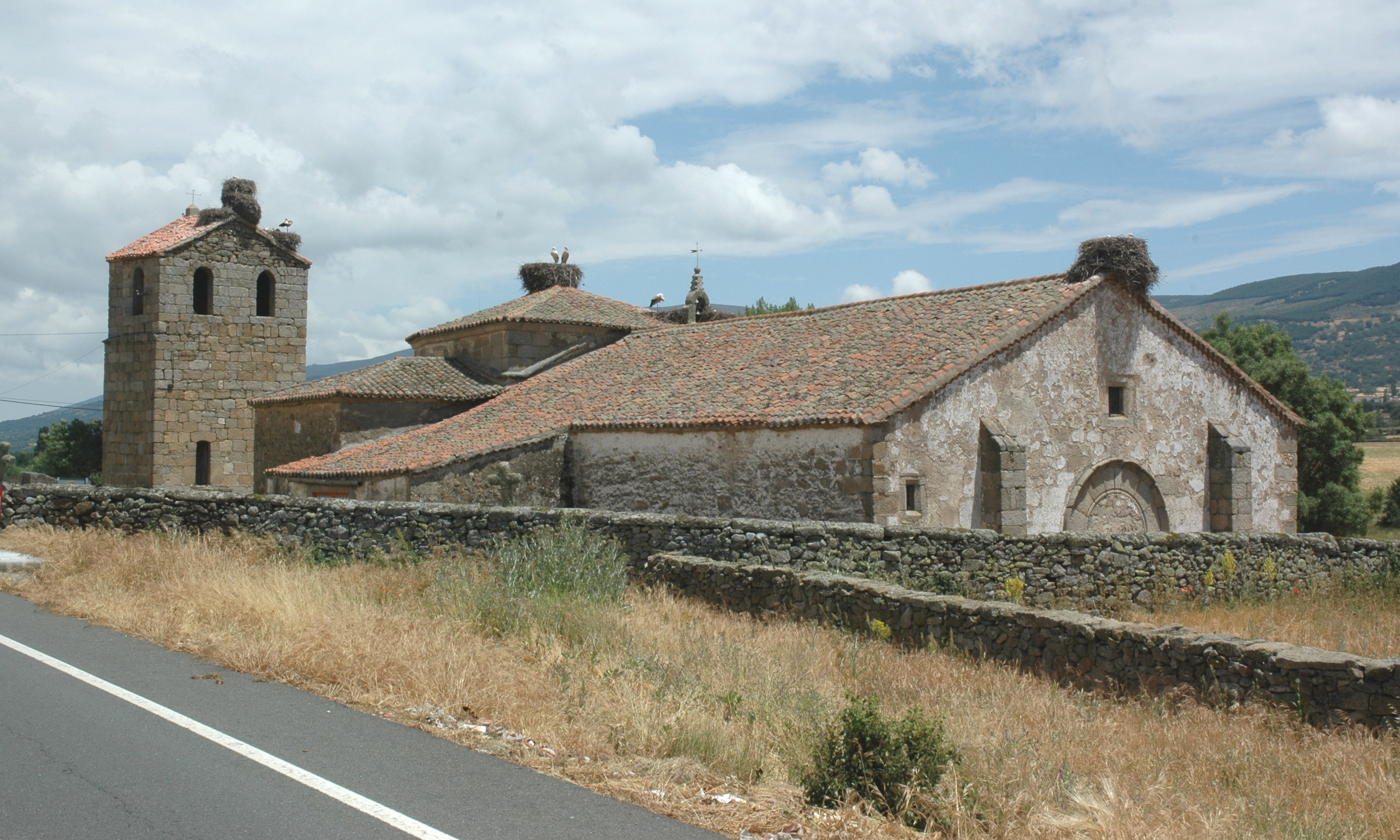 Parish church of Santa María de los Caballeros, Province of Ávila, Castilia y Leon, Spain